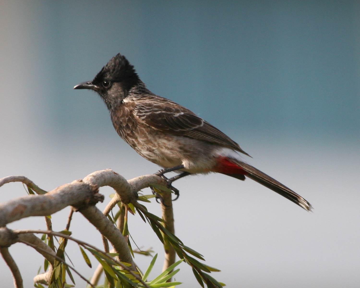 Red-vented Bulbul Pycnonotus cafer humayuni Powai Lake, Mumbai, India 25th. September 2005 Compare to Pycnonotus cafer bengalensis or